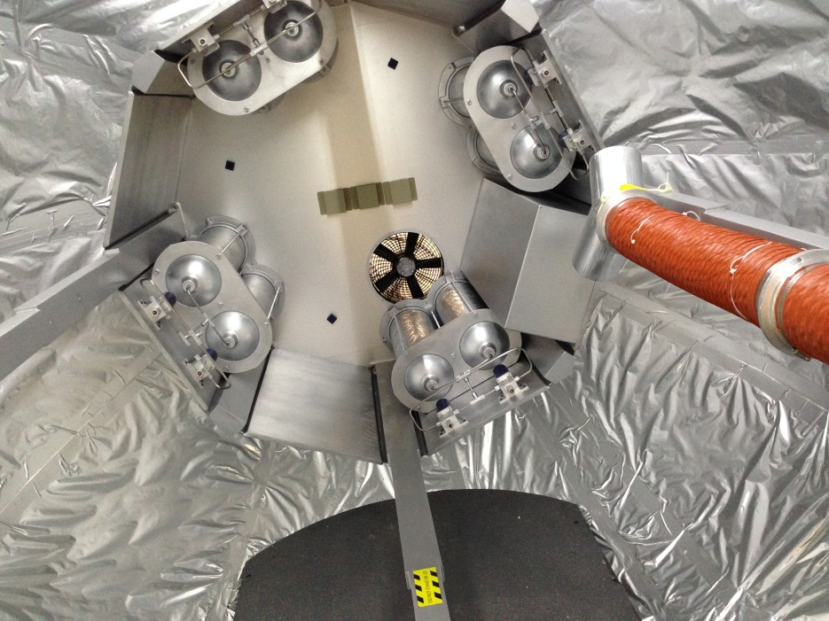 Mock-up interior of the Bigelow Expandable Activity Module.